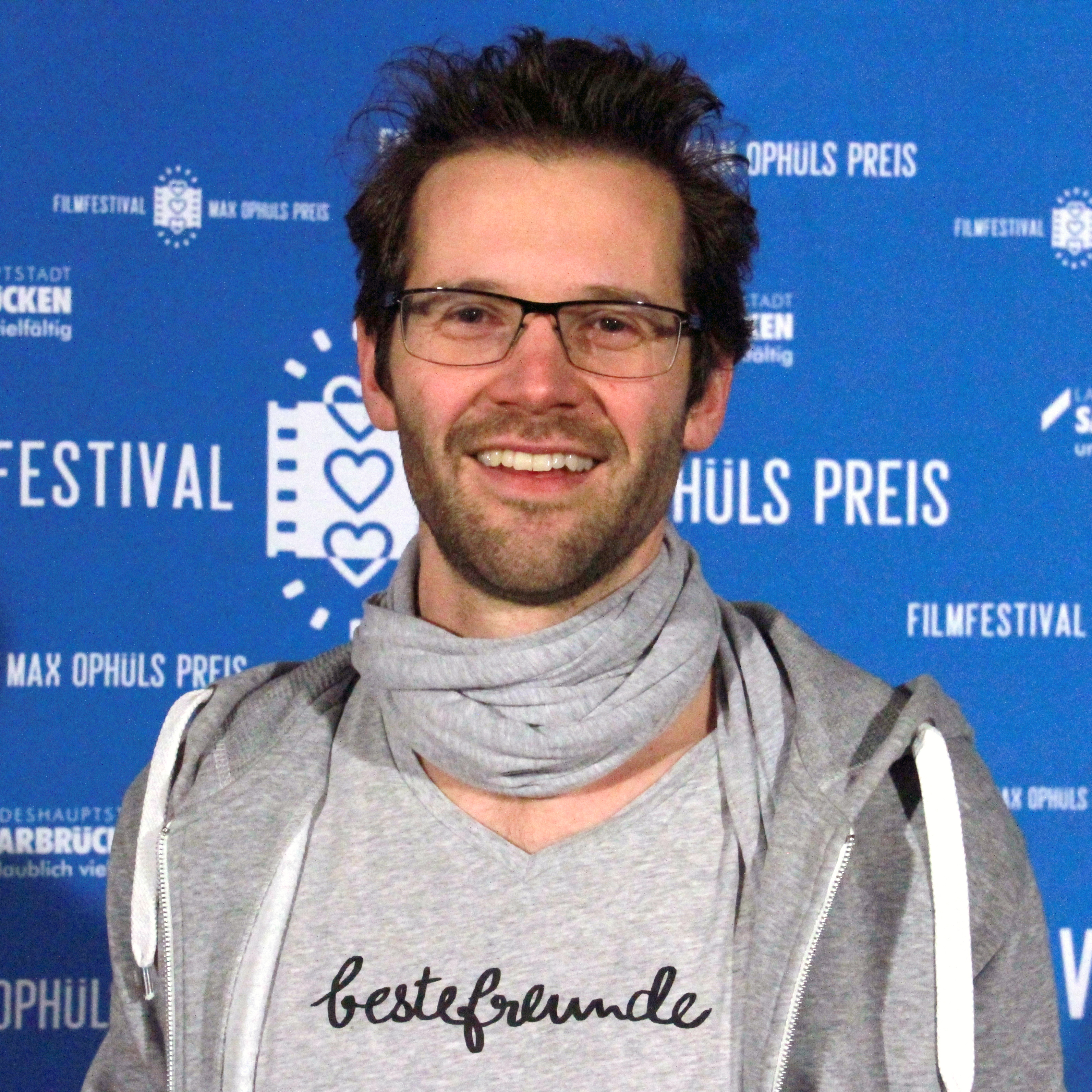 Jonas Grosch at the Max-Ophüls-Festival 2015